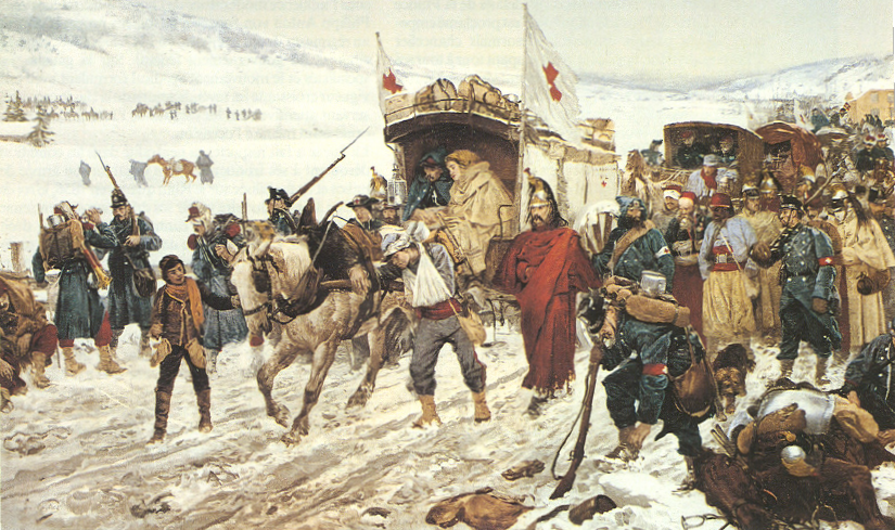 Retreat of the french army of Gal Bourbaki during the French-German war of 1870 (section)